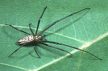 female Leucauge subblanda from Okinawa.